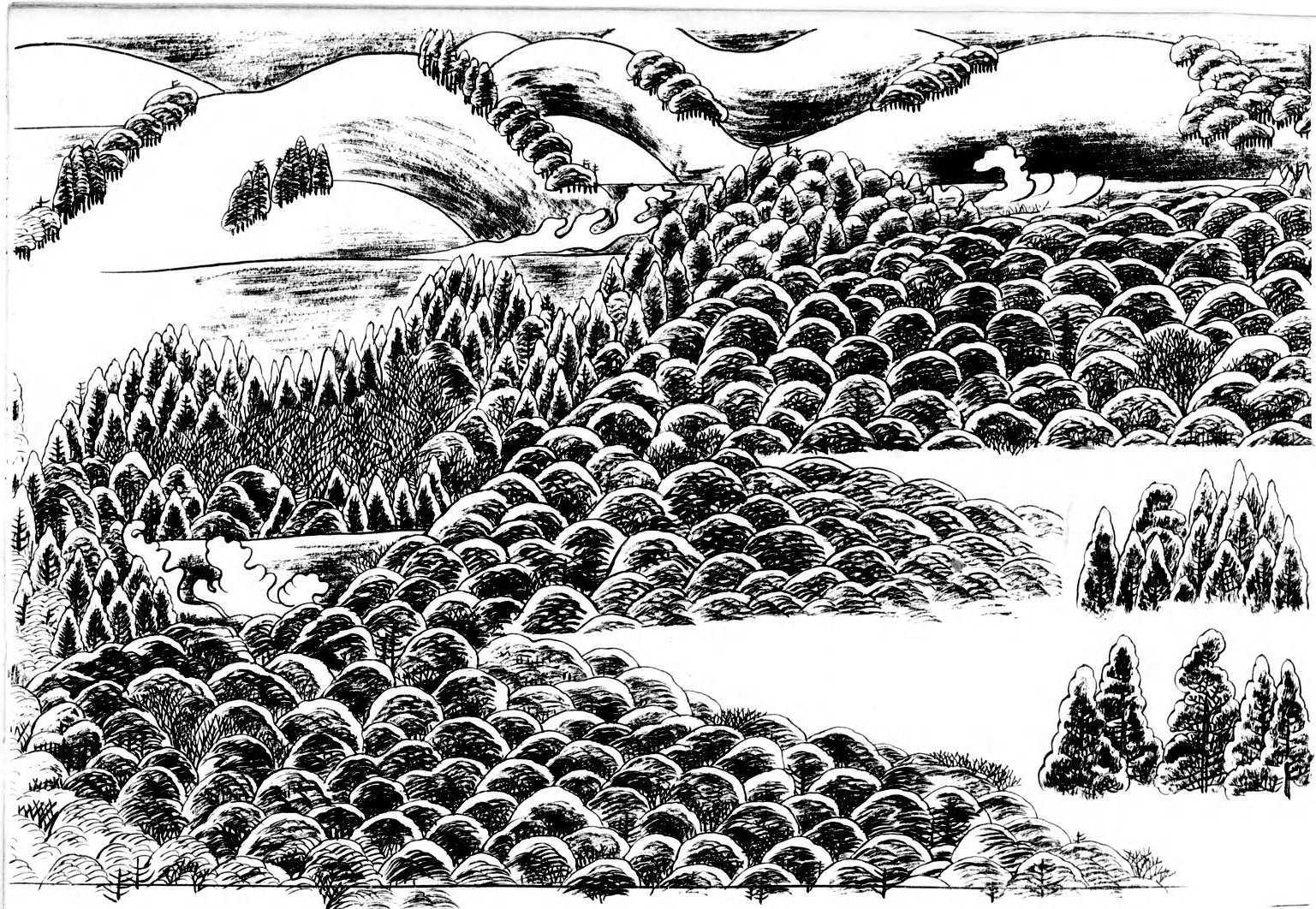 This picture is monochrome copy,but origanal one is colored.